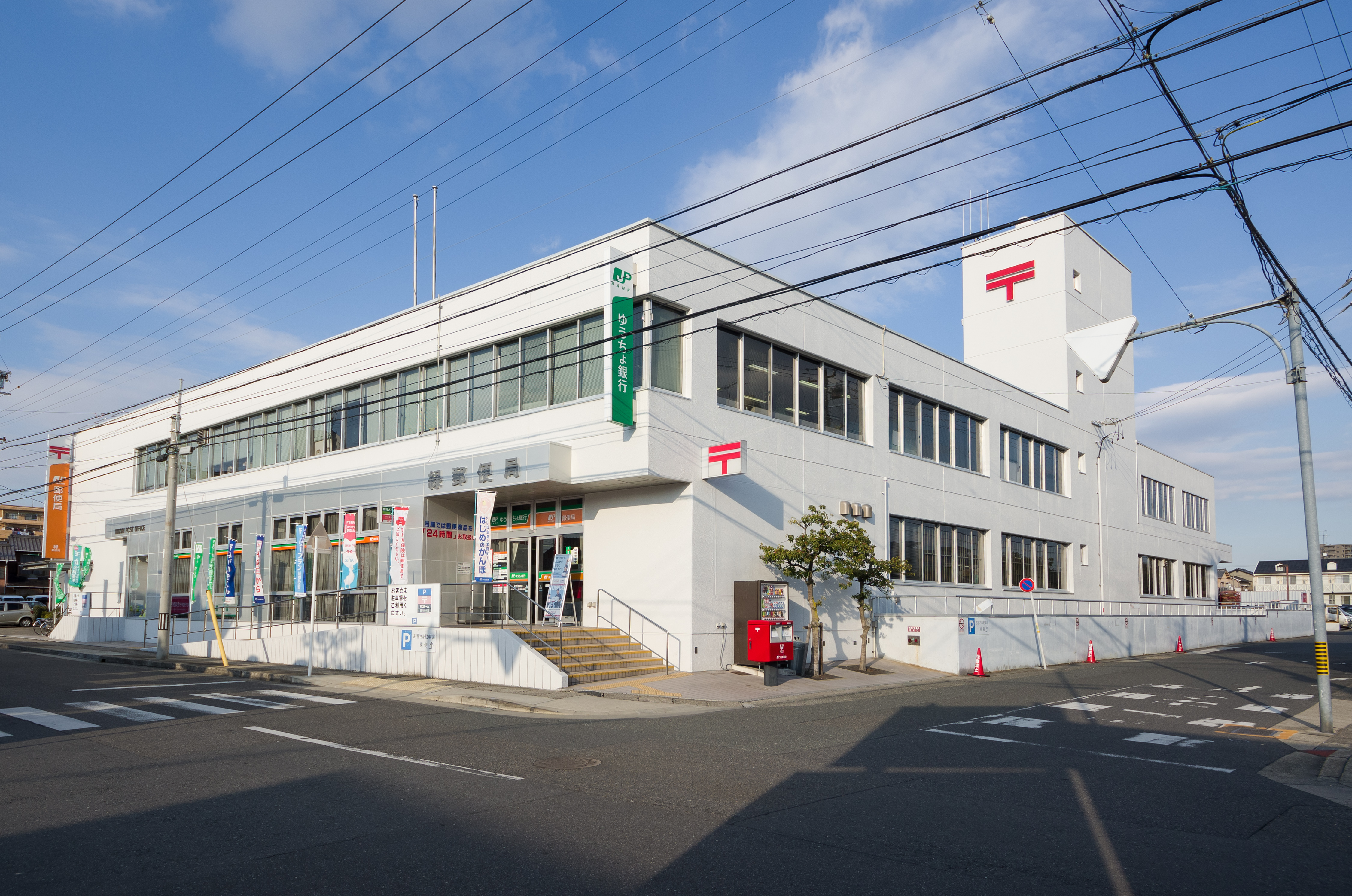 Midori Post Office in Midori-ku, Nagoya, Japan